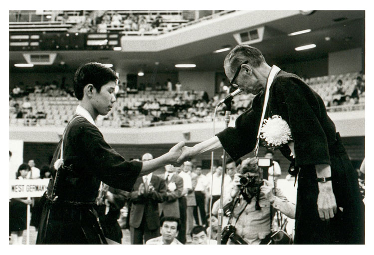 Jorge Kishikawa receives the third place medal in the 2nd World Youthful Kendo Chapionship, 1977, Tokyo